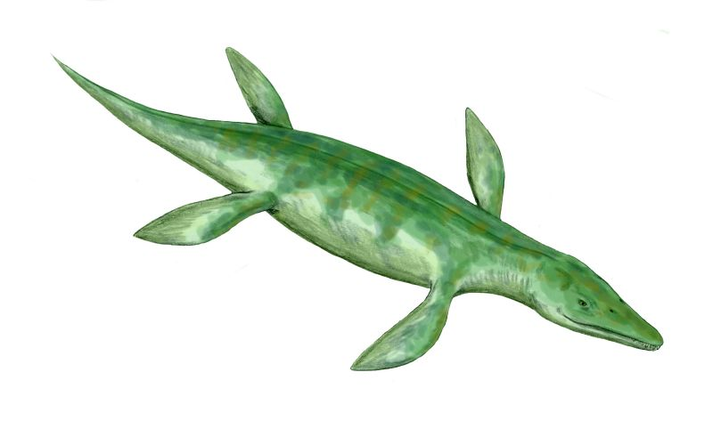 Kronosaurus queenslandicus, a pliosaur from the Early Cretaceous of Australia, pencil drawing